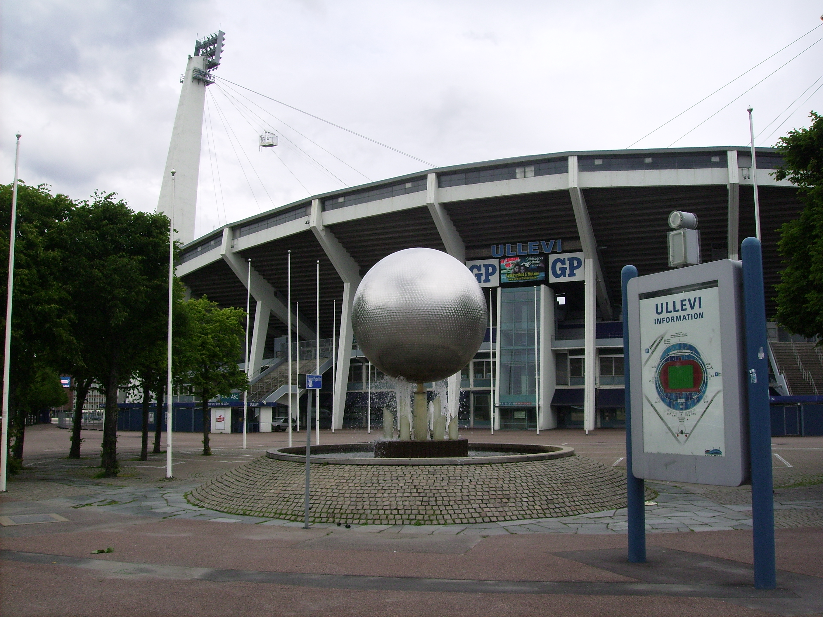 Picture of Bollen i luften, sculpture in Gothenburg